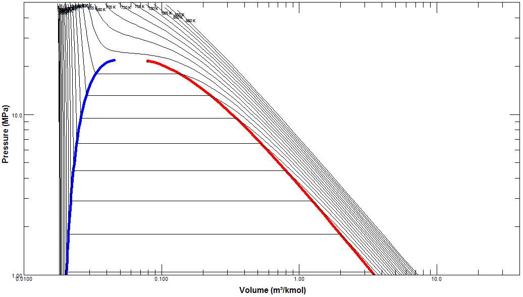 An absolute pressure v. specific volume plot for water at different temperatures.